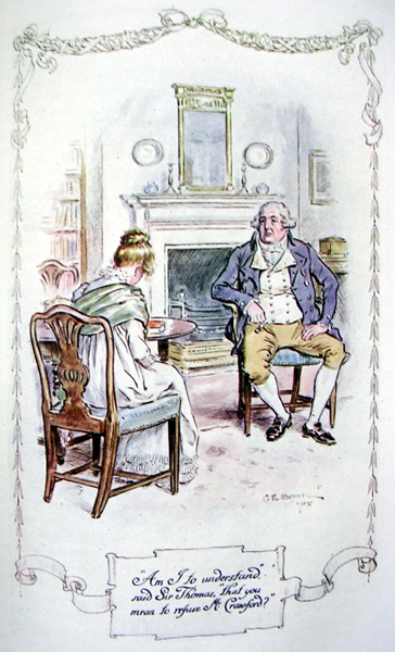 Illustration for ch 32 of Mansfield Park, published as part of the Series of English Idylls, by J.M Dent & Co. (London) and E.P. Dutton & Co. (New York).